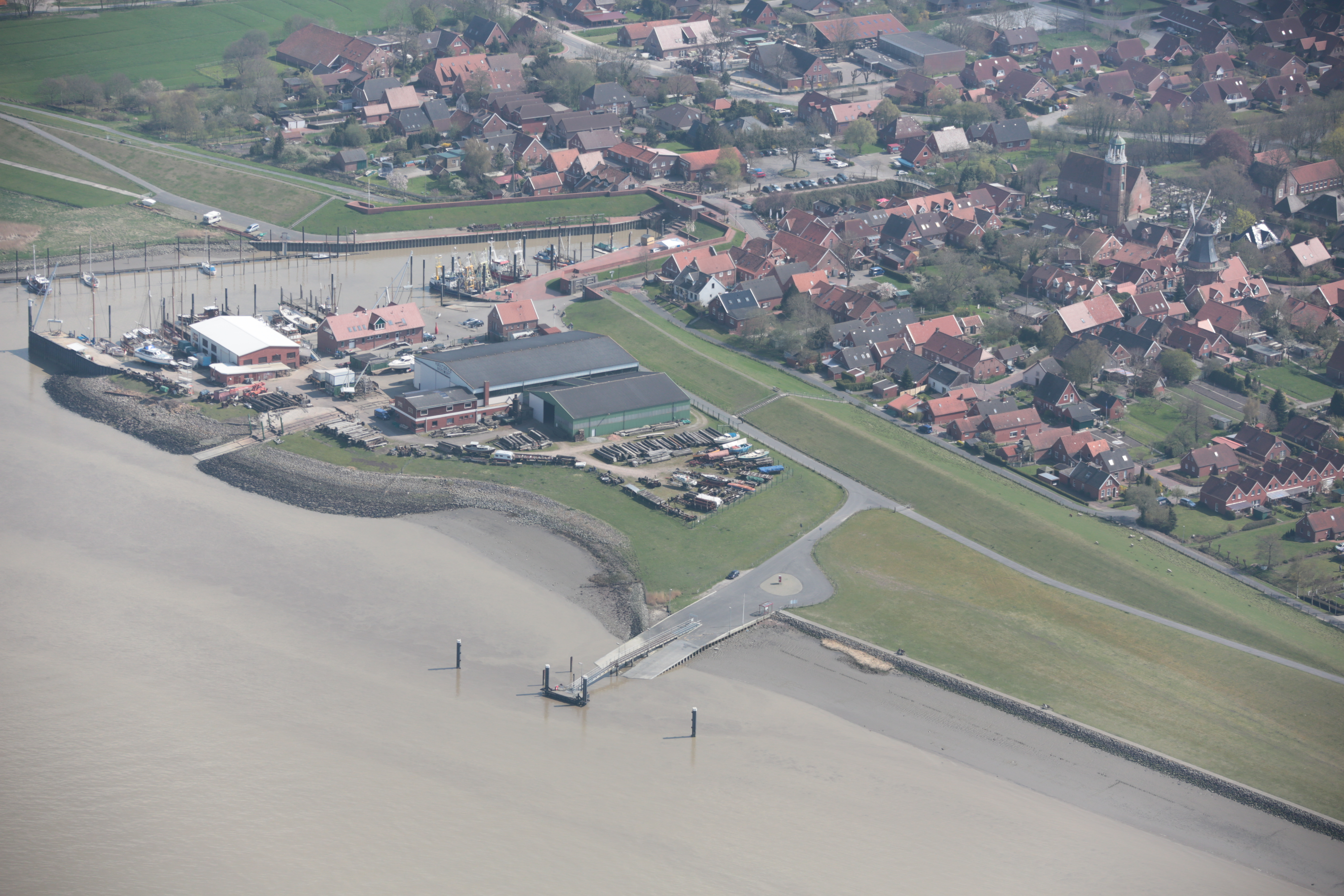 Fotoflug von Nordholz-Spieka nach Oldenburg und Papenburg This photo was taken by Alchemist-hp. If you use one of my photos, an email (account needed) or a message or direct to: my email account would be greatly appreciated. Please note the license terms. Other licensing terms can get discussed, too. This file is copyrighted and has been released under a license which is incompatible with Facebook's licensing terms. It is not permitted to upload this file to Facebook.